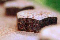 A rusty bolt on a bridge over a small stream. I took this picture on a Nikon FM2 using a Vivitar 70-210mm macro zoom lens and Kodak Max Versatility film. I release this picture into the public domain; you may not claim you took this photo yourself, but you do not need my permission to use it in any other way for any reason. --KQ 17:59 Aug 24, 2002 (PDT)